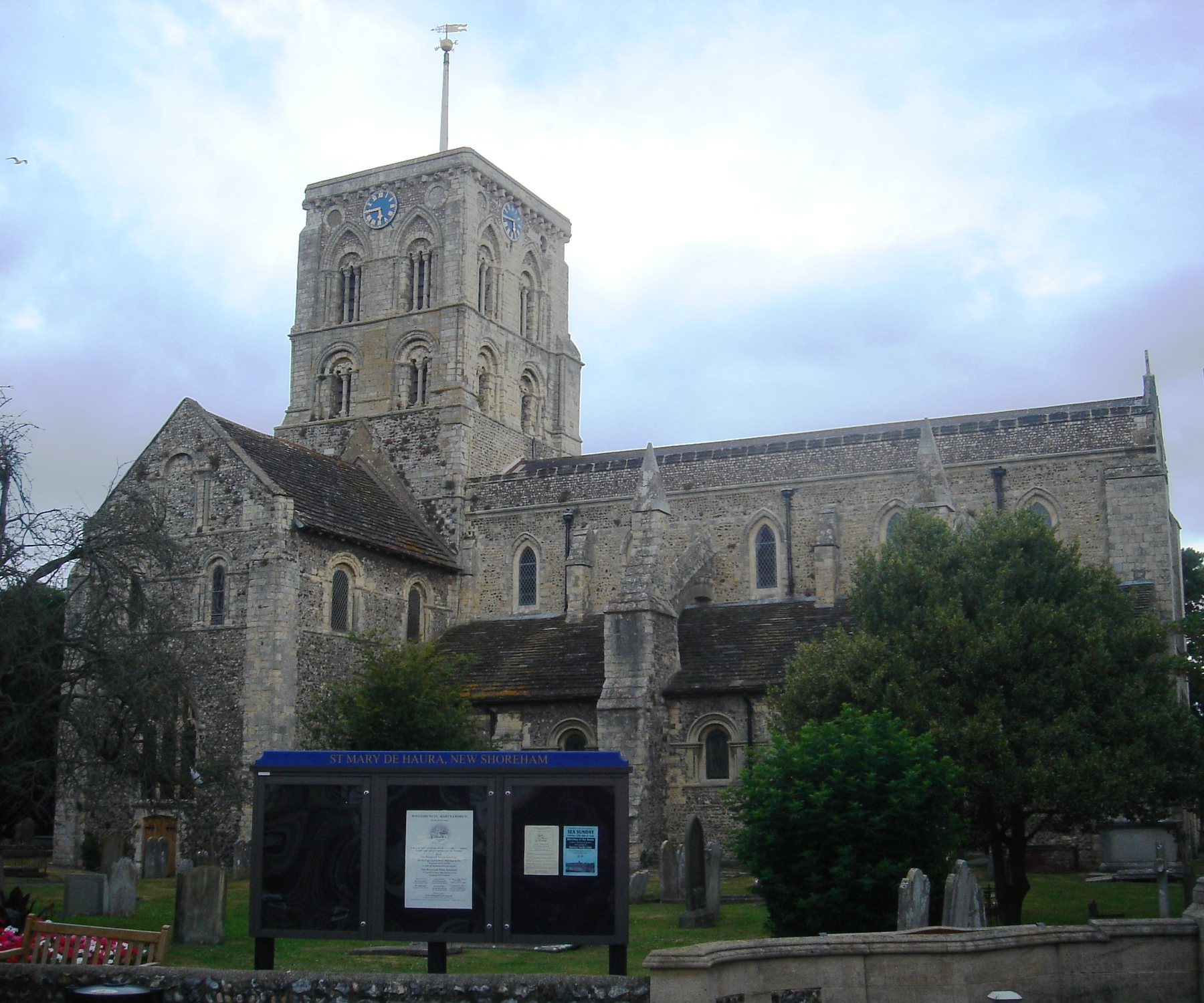 St Mary de Haura Church, Church Street, Shoreham-by-Sea, Adur District, West Sussex, England. The 12-century parish church of New Shoreham, now part of the town of Shoreham-by-Sea. listed at Grade I by English Heritage (IoE Code 297284)